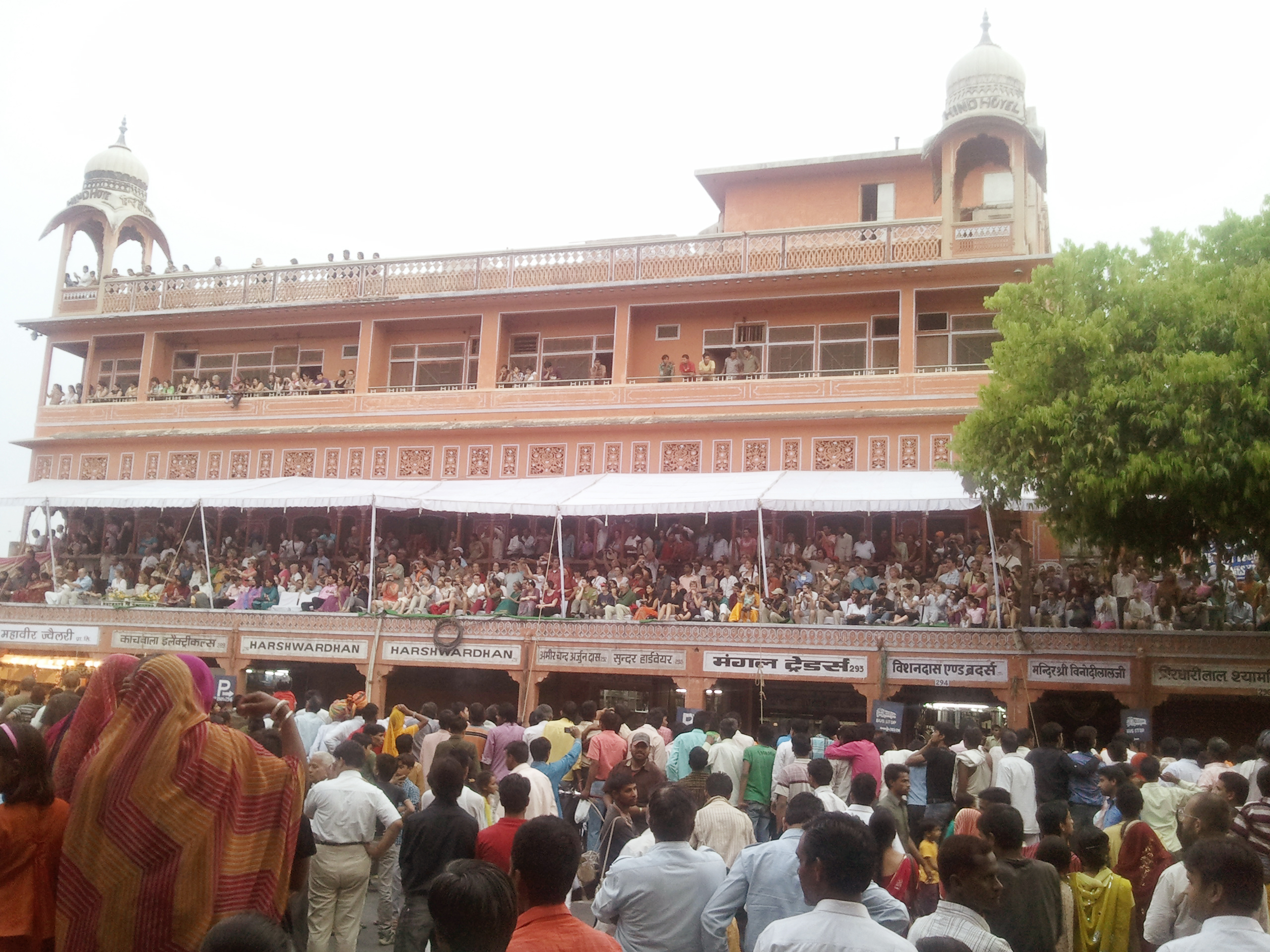 Crowd gathered at Gopalji Ka Rasta (near Chaura Rasta) to witness Gauri's procession on Gangaur festival.